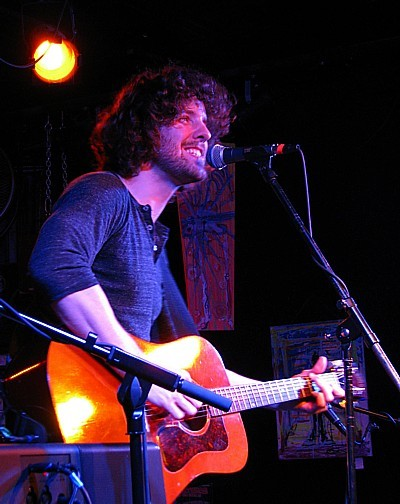 John Lefler performing solo at The Saint in Asbury Park, NJ, May 20, 2011.